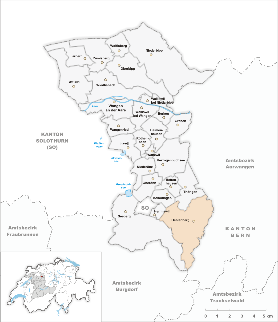 Municipality Ochlenberg